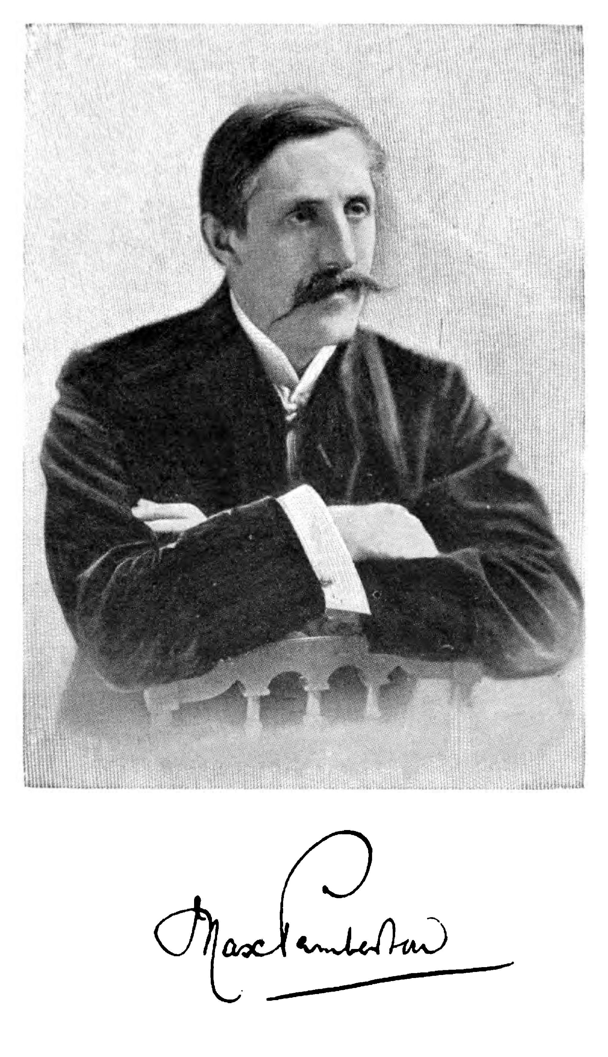 Max Pemberton